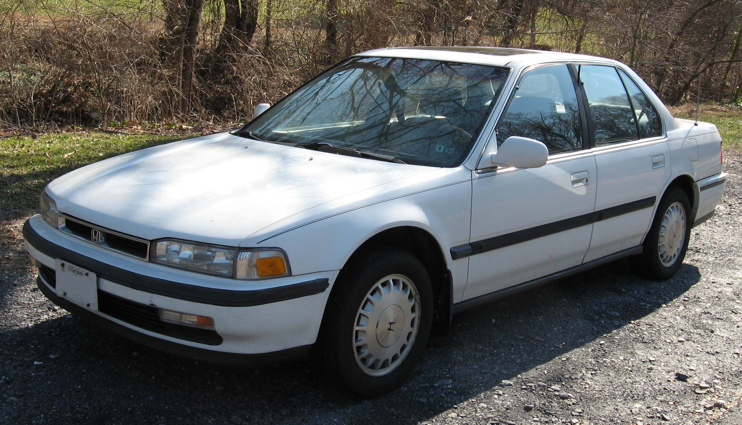 1990-1991 Honda Accord photographed in USA.